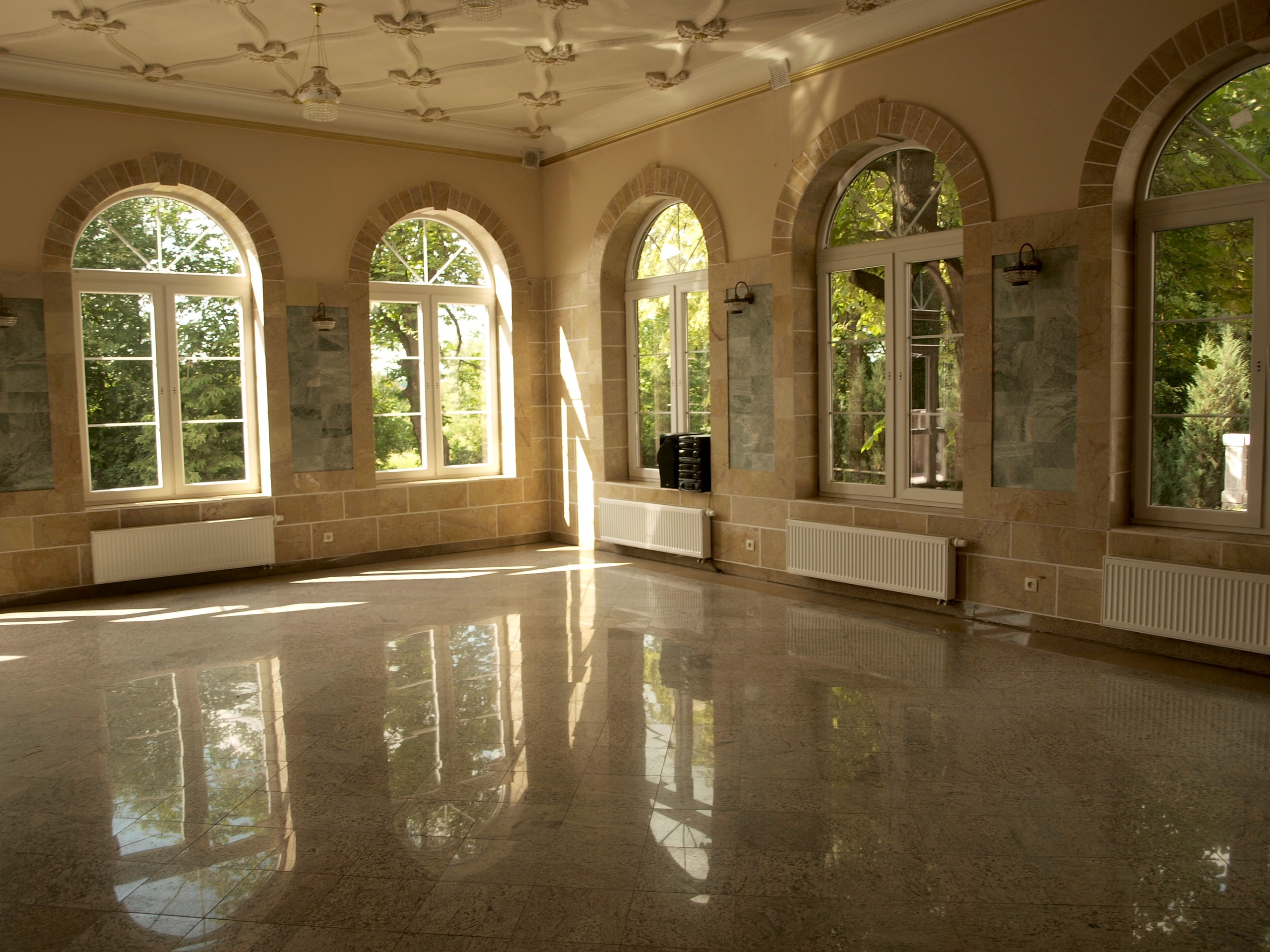 A photo of the room inside the Ostoya manor taken during the summertime when visiting.